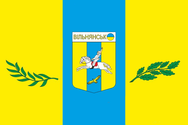 Flag of Vilnyansk Zaporizhia Oblast, Ukraine.